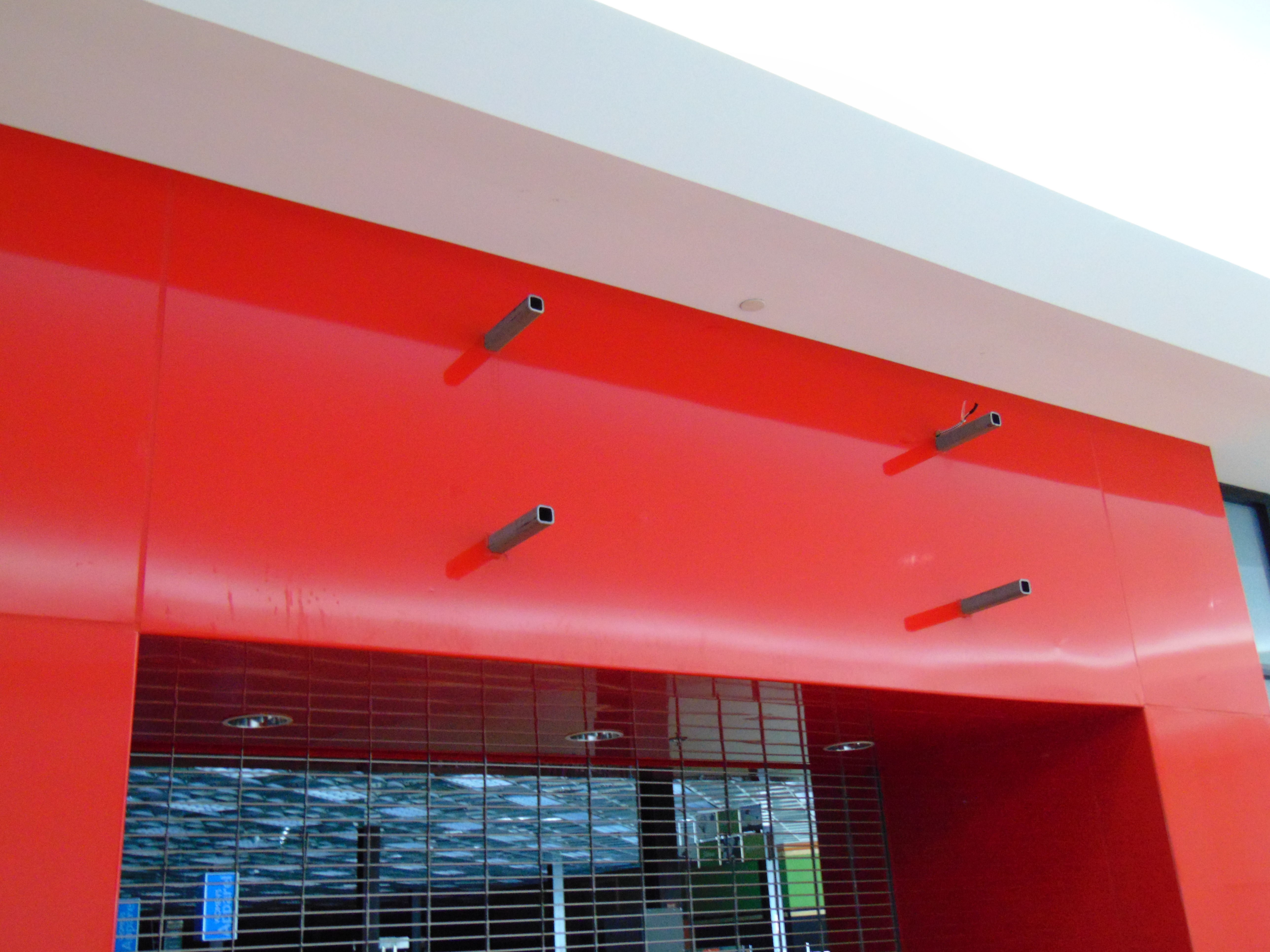 The closed Sports Authority located inside the Warwick Mall, in Warwick, Rhode Island. It closed in July 2016.